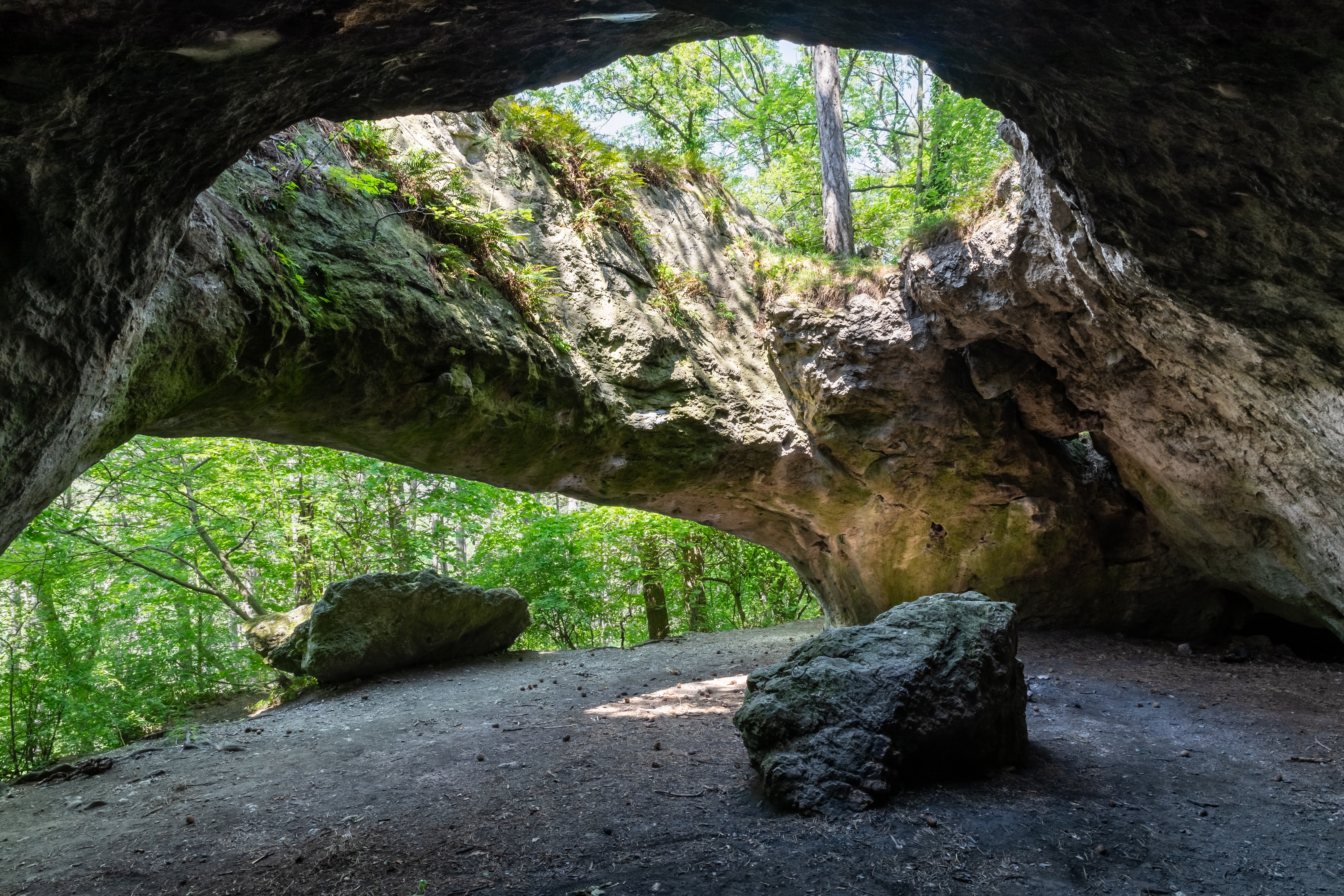 Königshöhle (King's Cave) near Baden bei Wien, Lower Austria